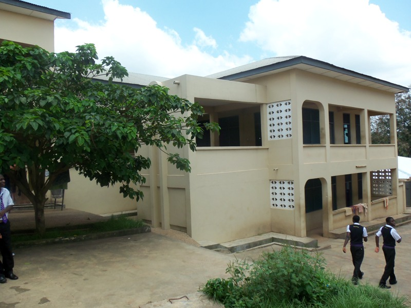 Quaque